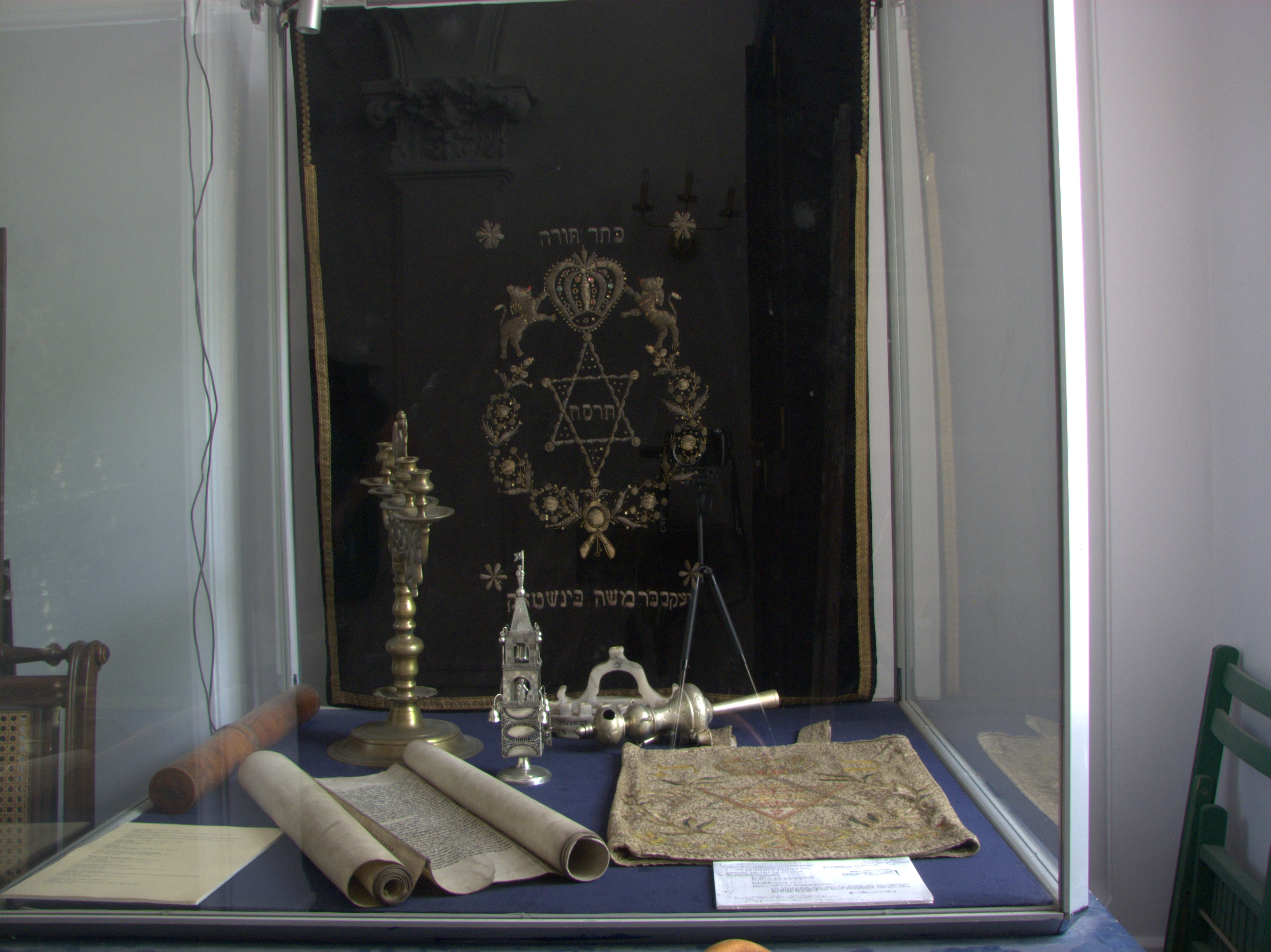 Trip to the Nozyk Synagogue